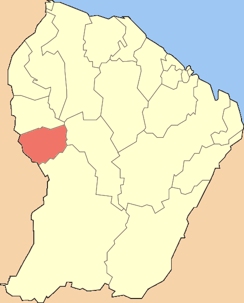 Made map myself.